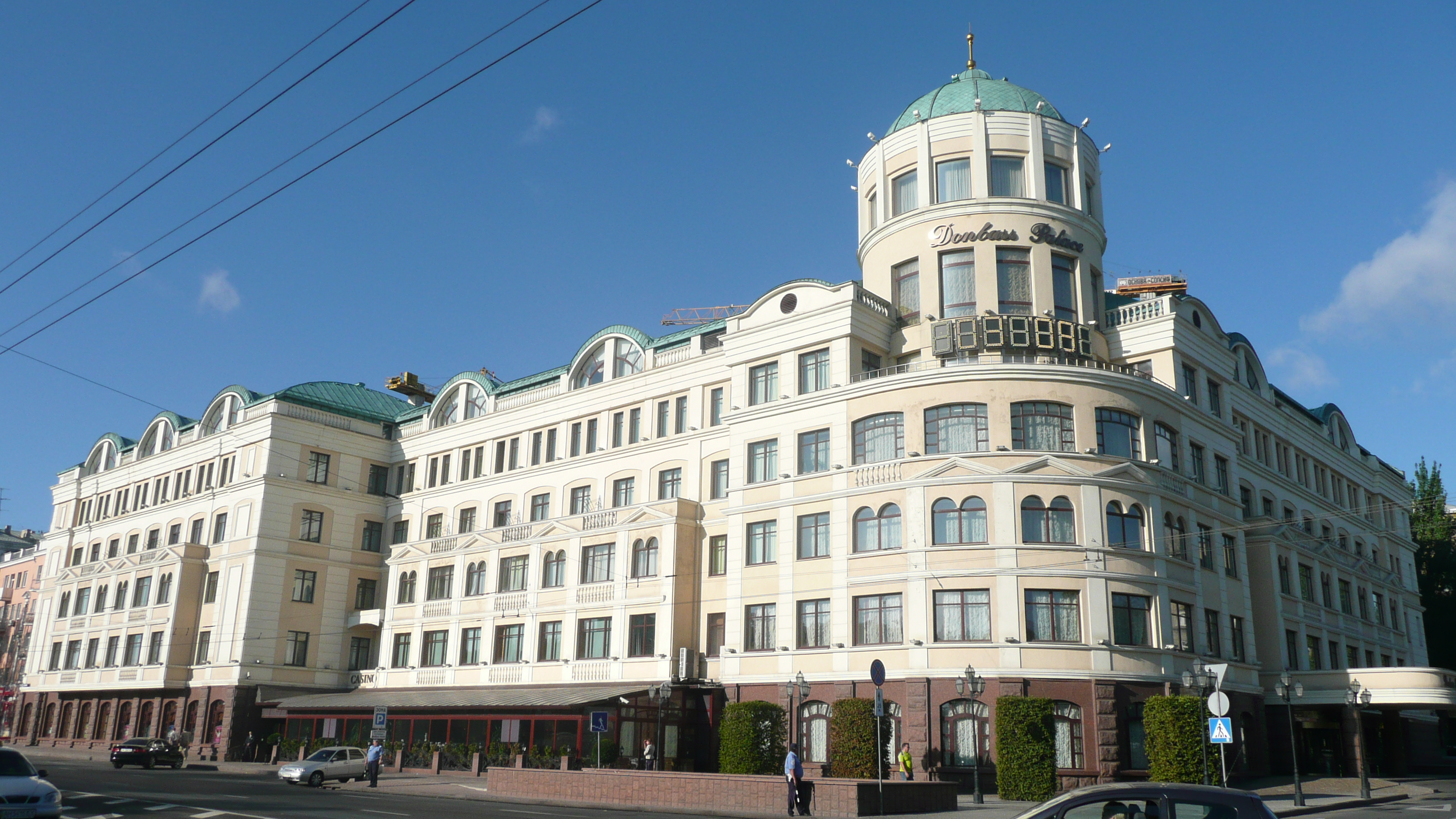 Donbass Palace - A five star hotel in Donezk